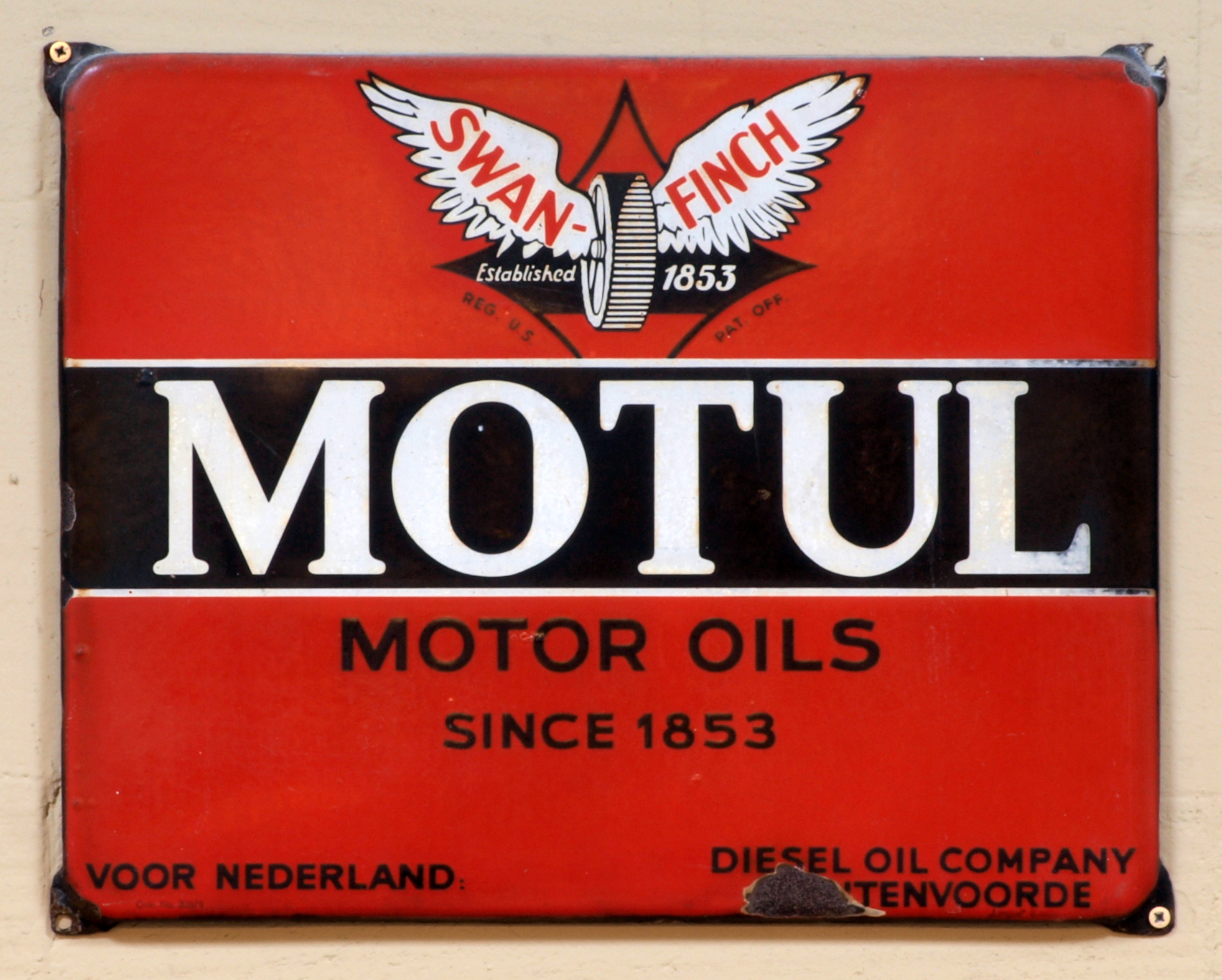 Den Hartogh Ford Museum. Swan-Finch Established 1853 Motul Motor Oils Since 1853 voor nederland diesel oil comany